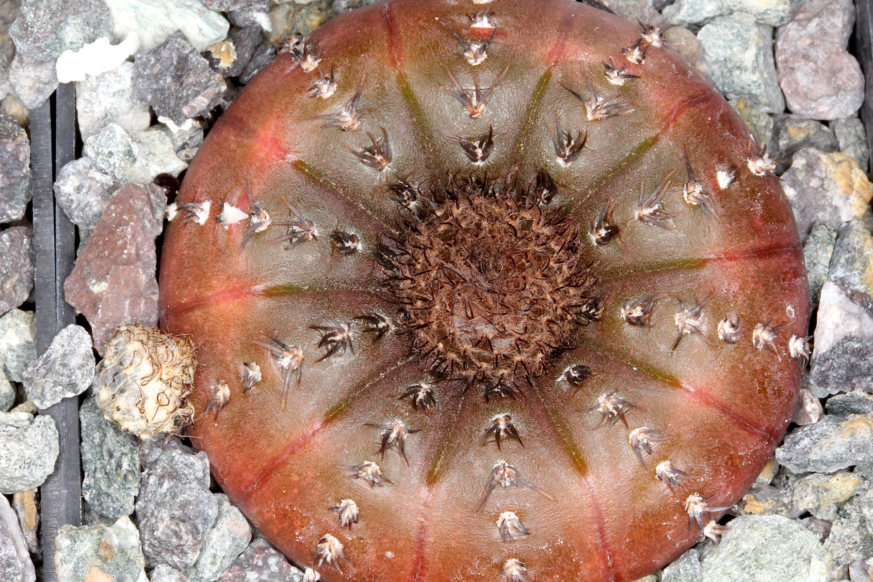 Fraile castanea ssp. castanea